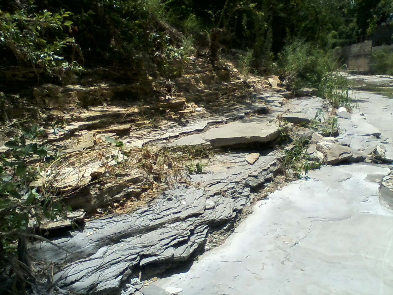 Del Rio Claystone, showing a purplish bottom layer, a greyish middle slab and an upper layer in brown and yellowish colors. East bank of Shoal Creek just south of Beverly S. Sheffield Northwest Park.